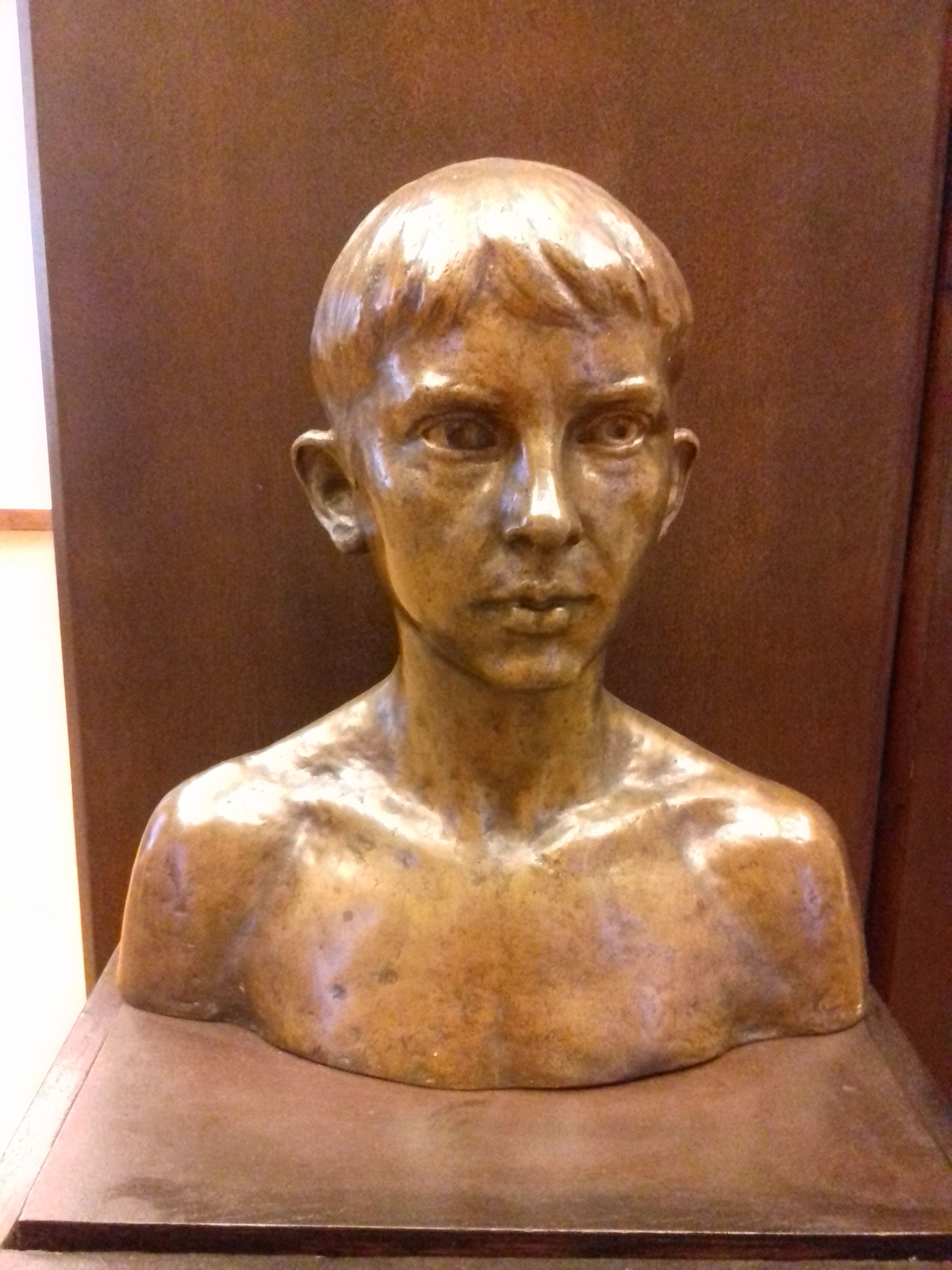 Bust of Vladimir Vladimirov Vazov by Zheko Spiridonov in Kvadrat 500, Sofia.